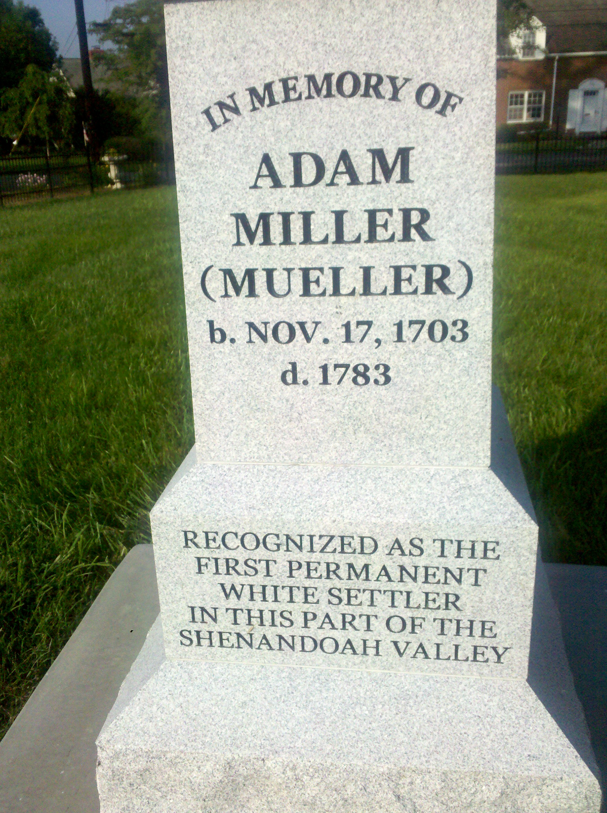 Close-up photo of the inscription on the obelisk memorializing Adam Miller (Mueller), in Elk Run Cemetery, Elkton, Virginia